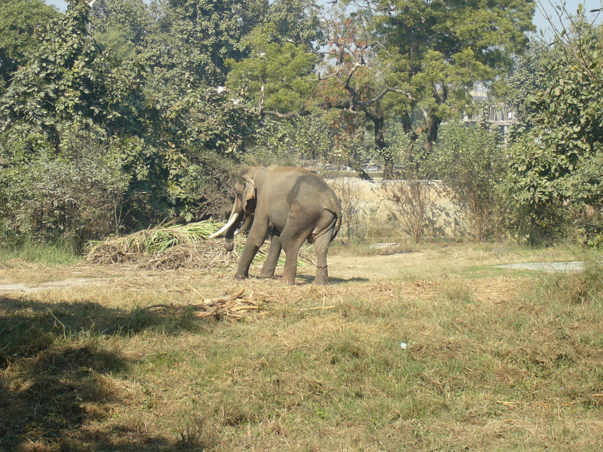 This is a picture of an elephant ("Sumit") at Lucknow Zoo which was taken by and loaded onto the English Wikipedia by user Moonwiki. The grounds of the zoo are or where in the grounds of La Martiniere College.